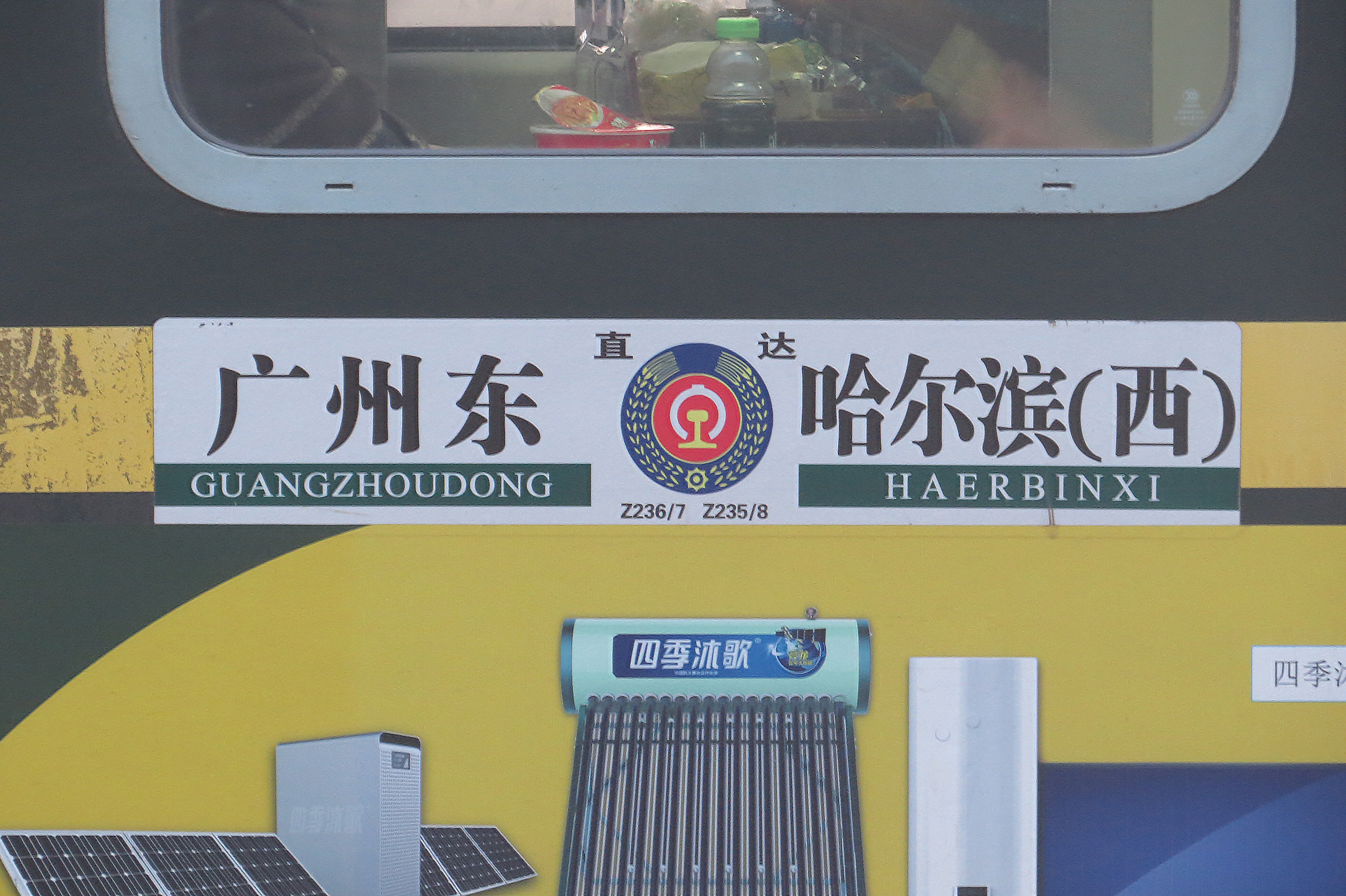 Taken on Z5 while stopping at Shijiazhuang.